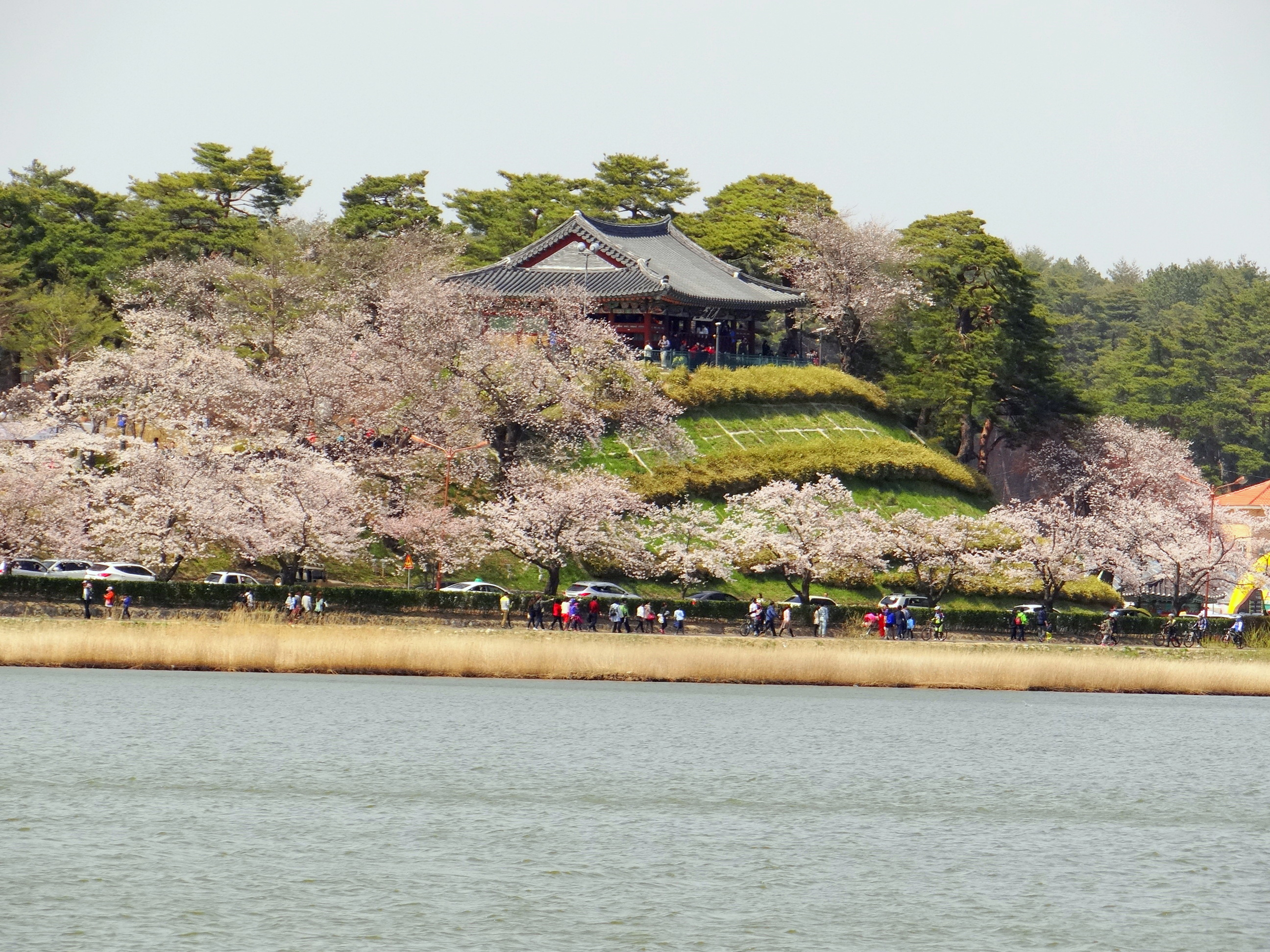 Cherry blossoms along Gyeongpo Lake in Gangneung, Gangwon-do, Korea.